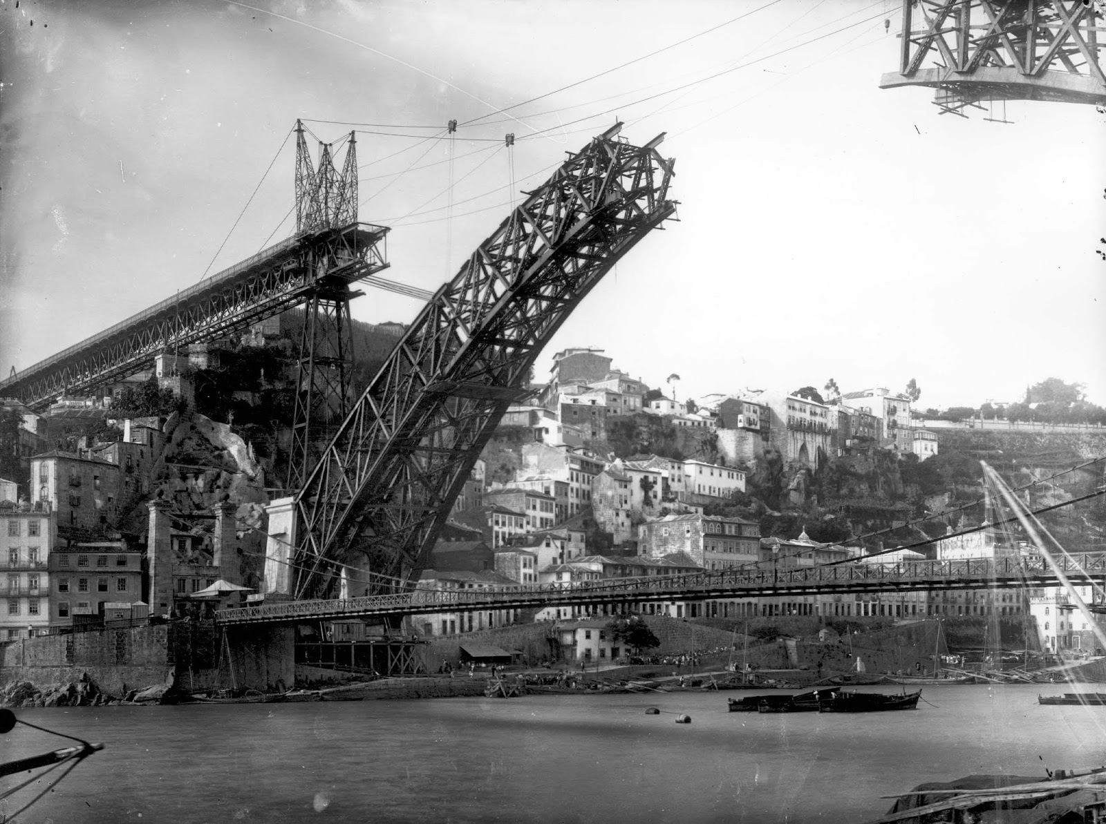 Dom Luís Bridge, Porto. Arch in construction